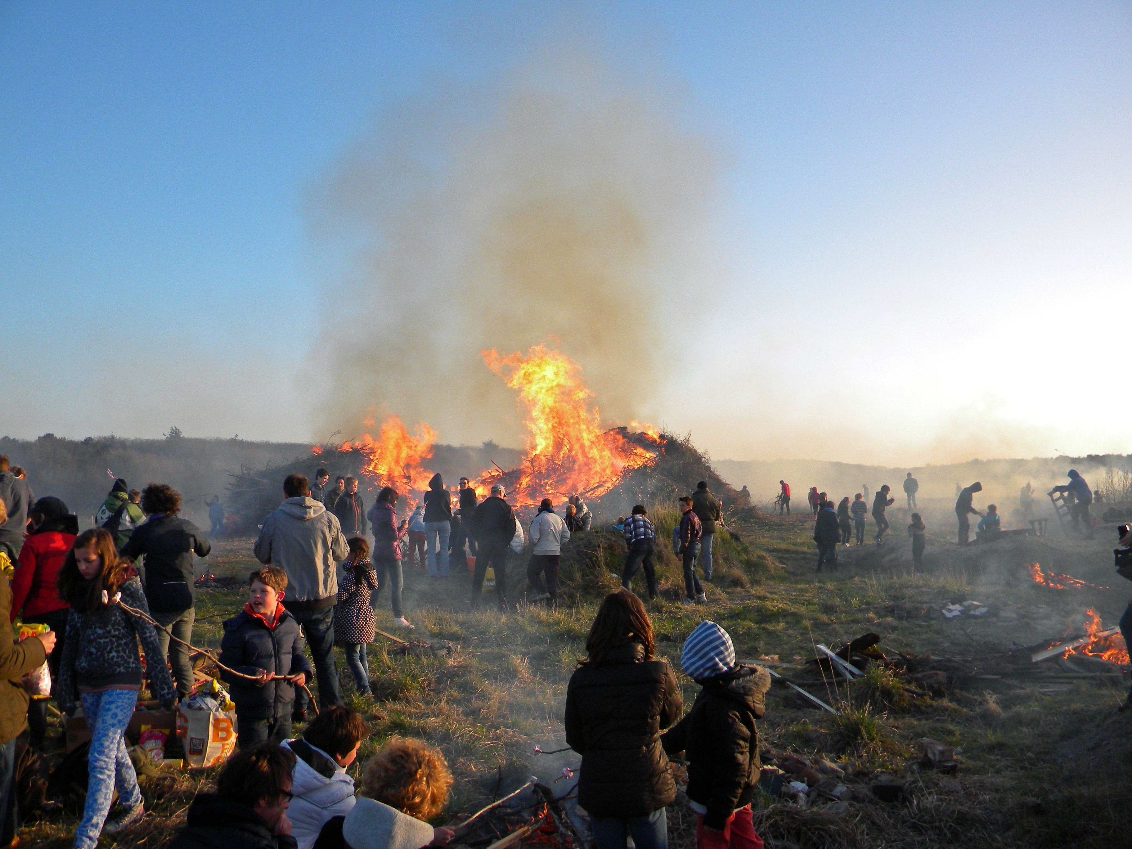 Meierblis near De Koog, Texel